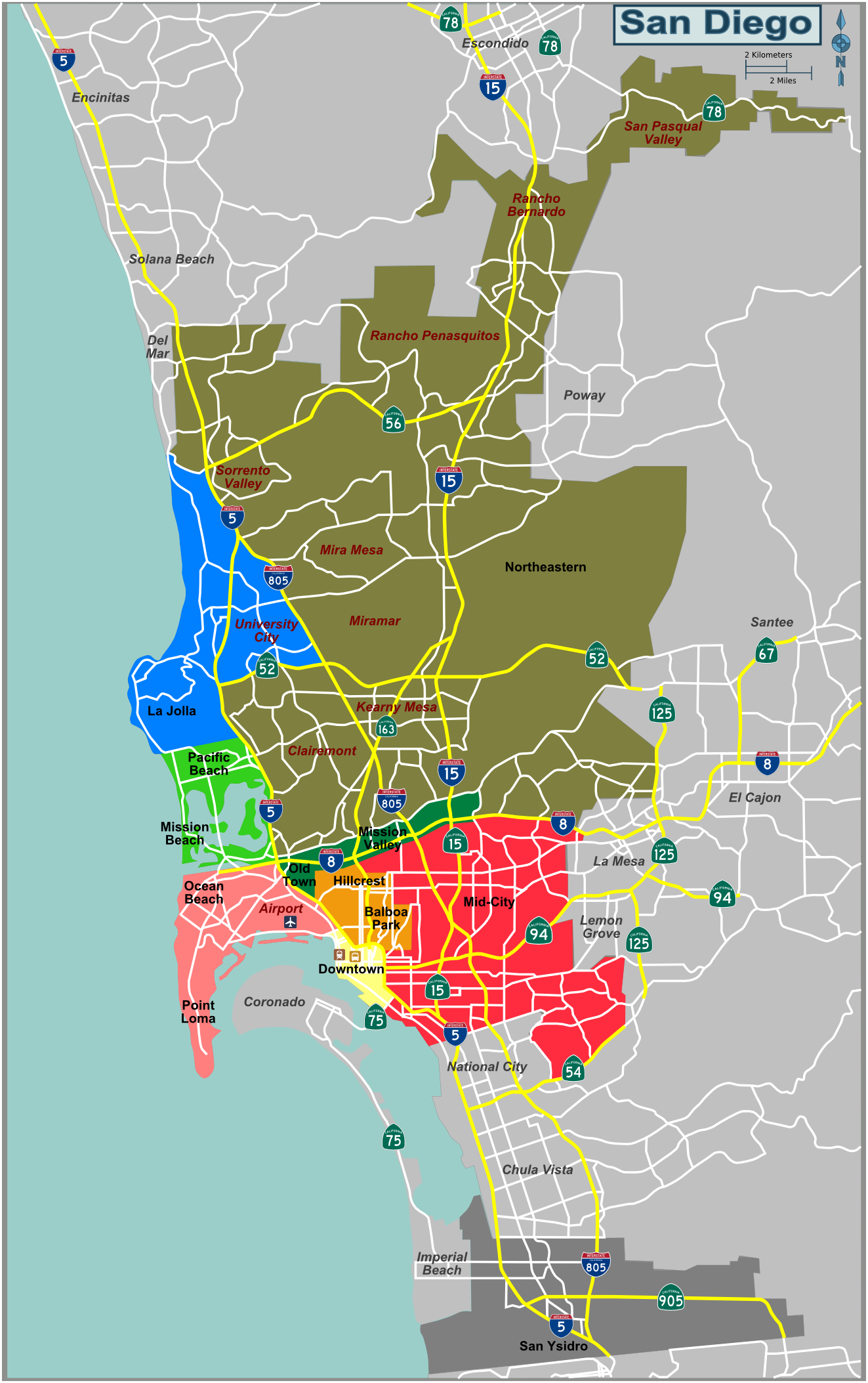 Map of San Diego Neighborhood regions — Southern California.